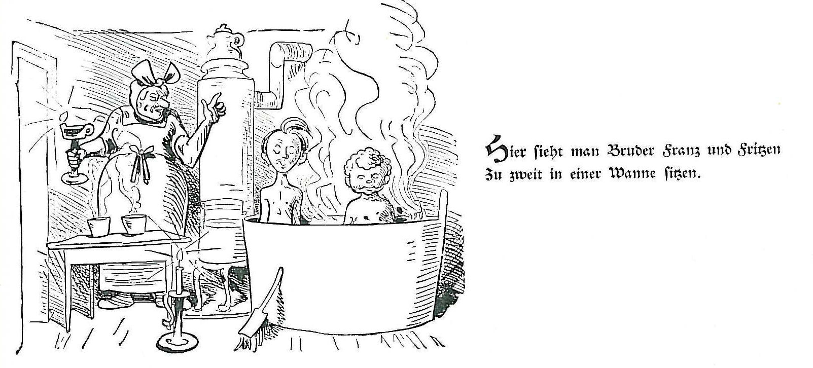 illustration of Wilhelm Busch's story "Das Bad am Samstagabend"